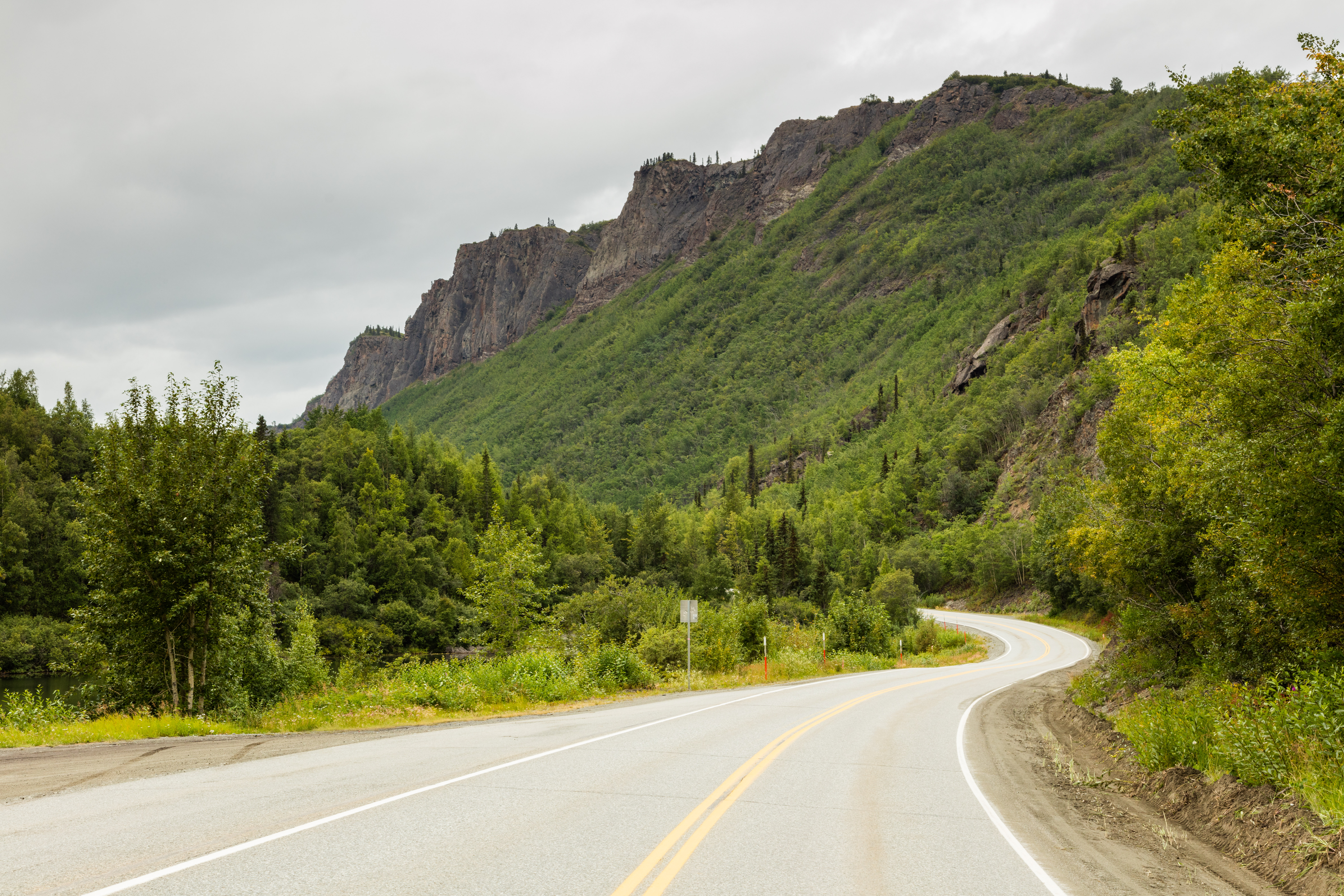 Glenn Highway, Palmer, Alaska, United States